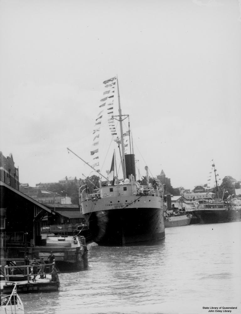 Messageries Maritimes' 10,061 GRT passenger liner Commissaire Ramel in Brisbane, Queensland